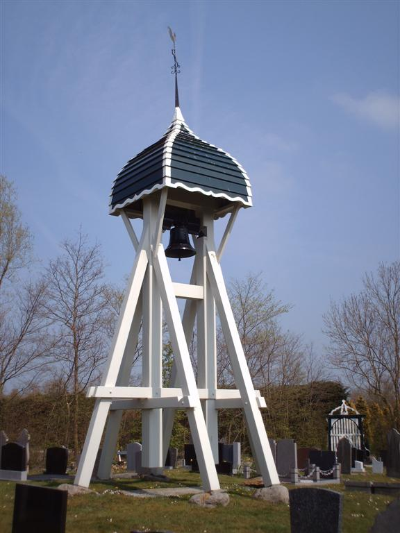 wooden bell tower in Legemeer, Friesland, Netherlands